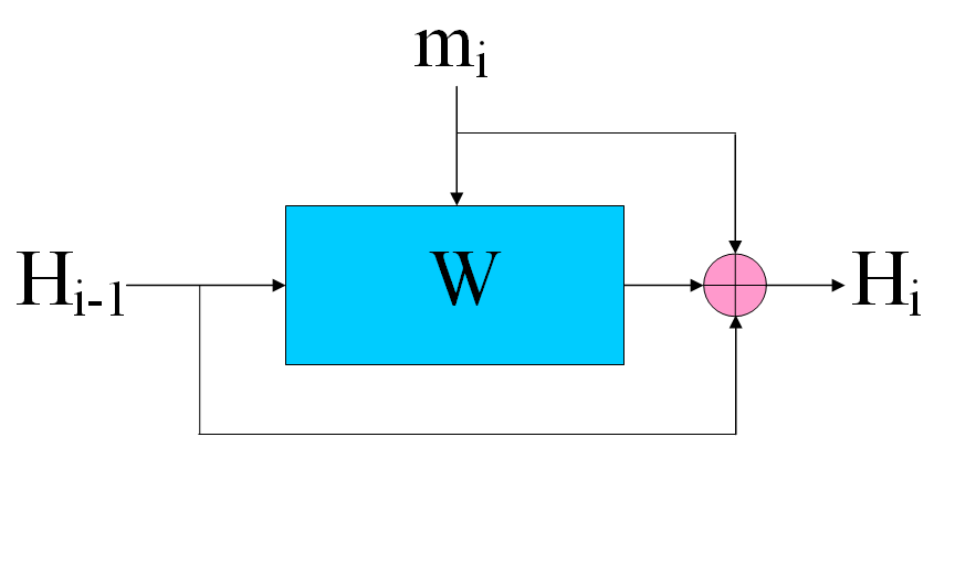 Miyaguchi-Preneel hashing scheme